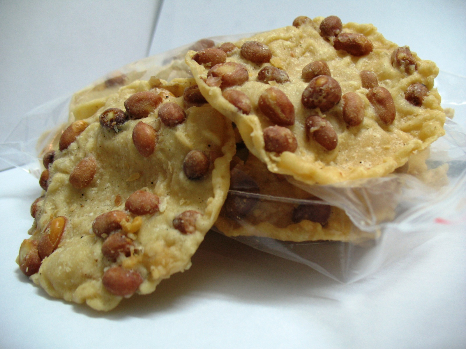 TongShao Cake